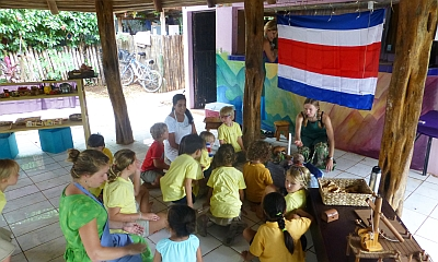 Pre-K/Kindergarten Group of Guanacaste Waldorf School doing Circletime in the Rancho